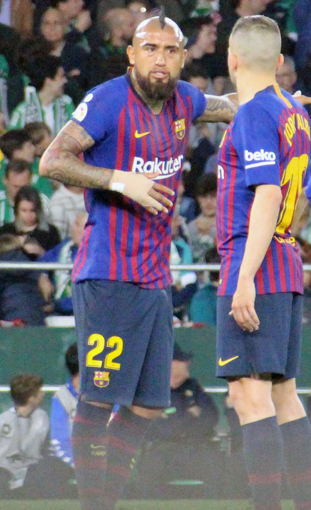 Arturo Vidal playing for FC Barcelona vs Real Betis, 17/03/2019